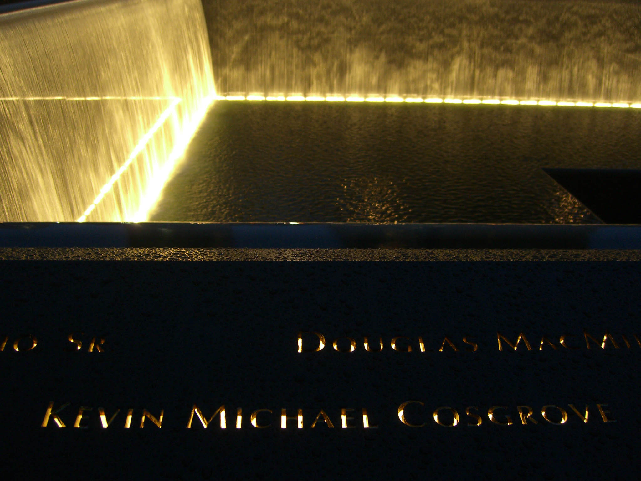 The name of Kevin Cosgrove is seen among those of other people inscribed on bronze panel S-60 of the South Pool of the National September 11 Memorial in Manhattan, as seen on December 6, 2011. This photo was created by Luigi Novi. If you have any questions, you can contact me by sending me an email or User talk:Nightscream